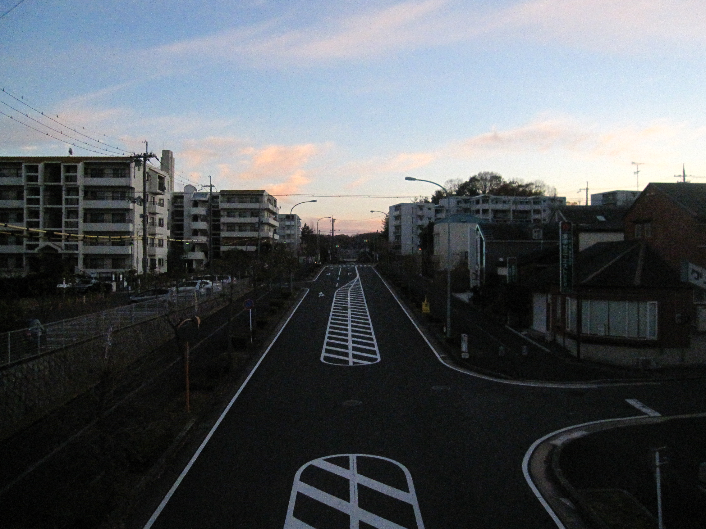 Kyoto prefectural road 328, at Kizugawa, Kyoto, Japan.